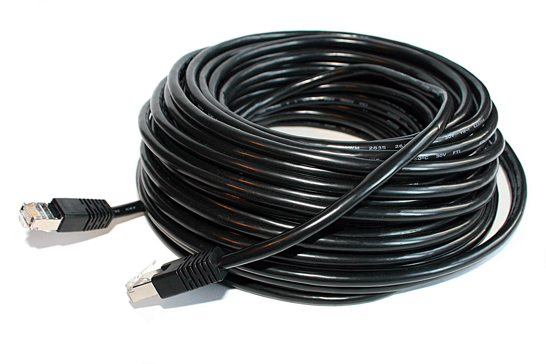 Patchcable 20 meters black